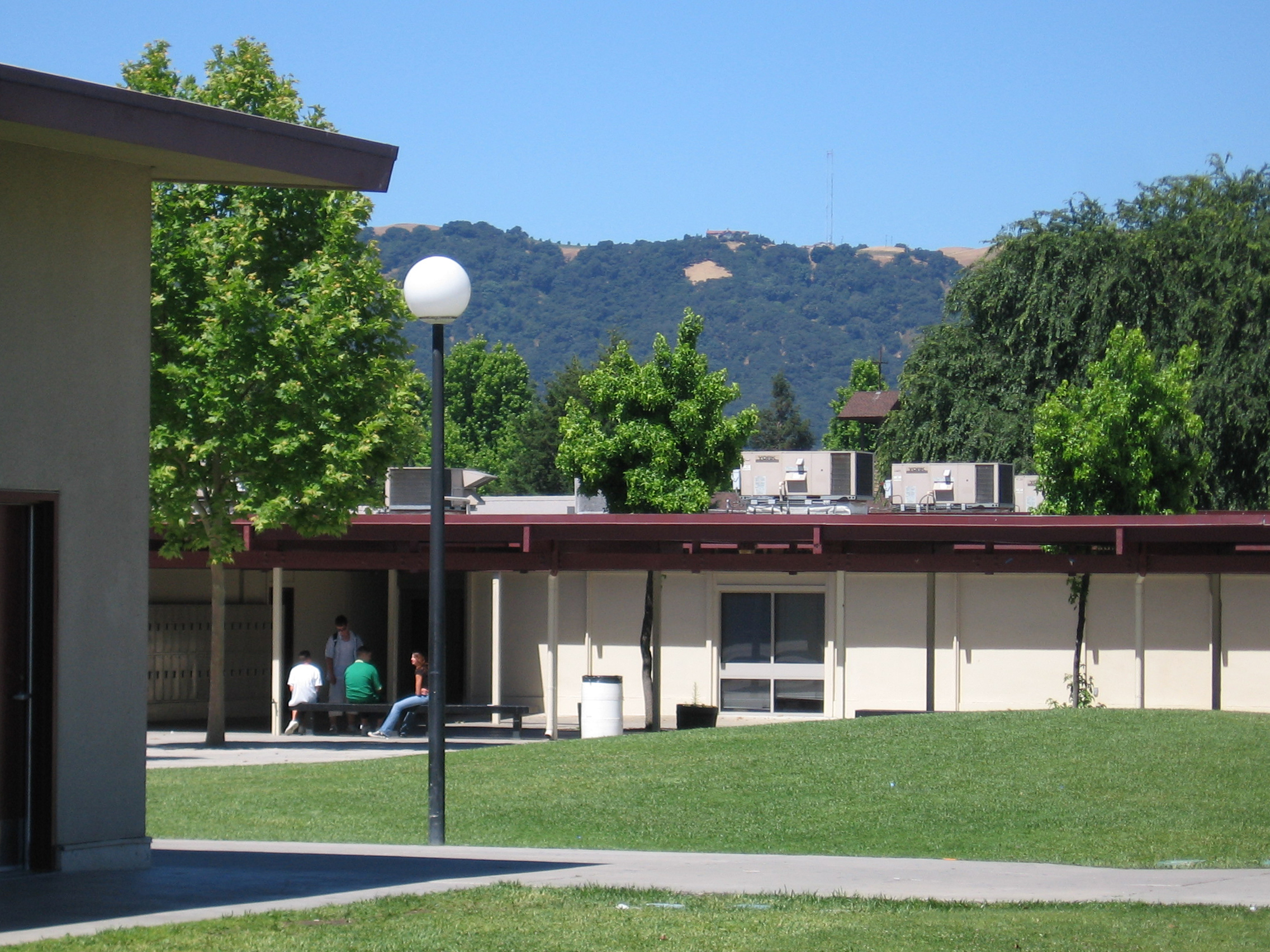 Amador Valley High School, looking across the quad from "B" building. Pleasanton Ridge is visible in the background.